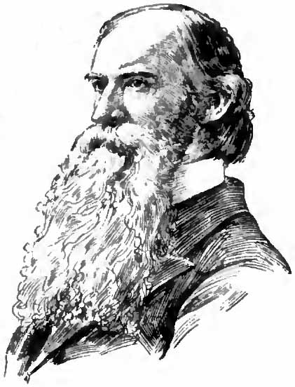 Portrait drawing of U.S. geologist John Strong Newberry.